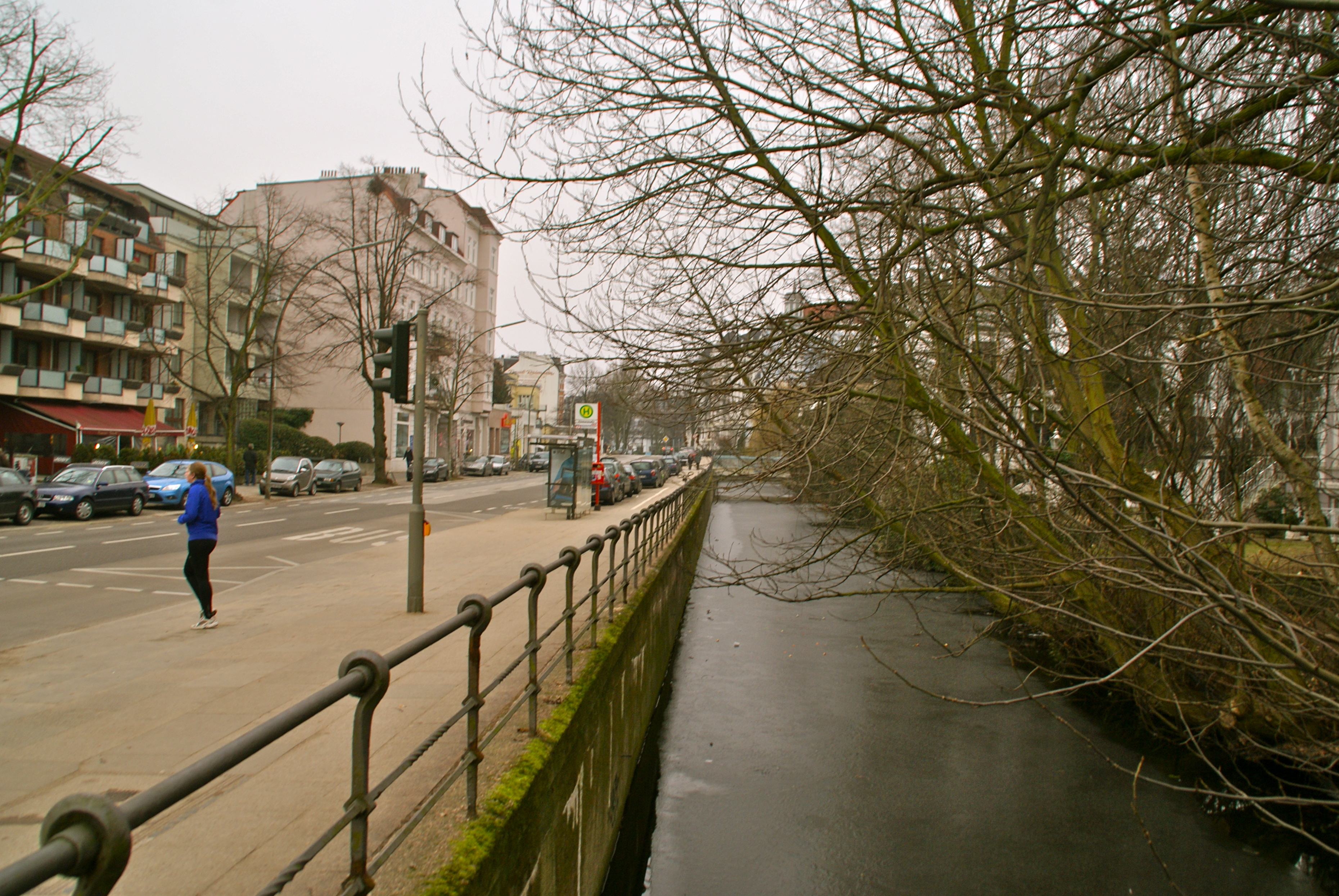 Hamburg (Uhlenhorst), Germany: The Hofwegkanal from the bridge at the Karlstraße in southern direction